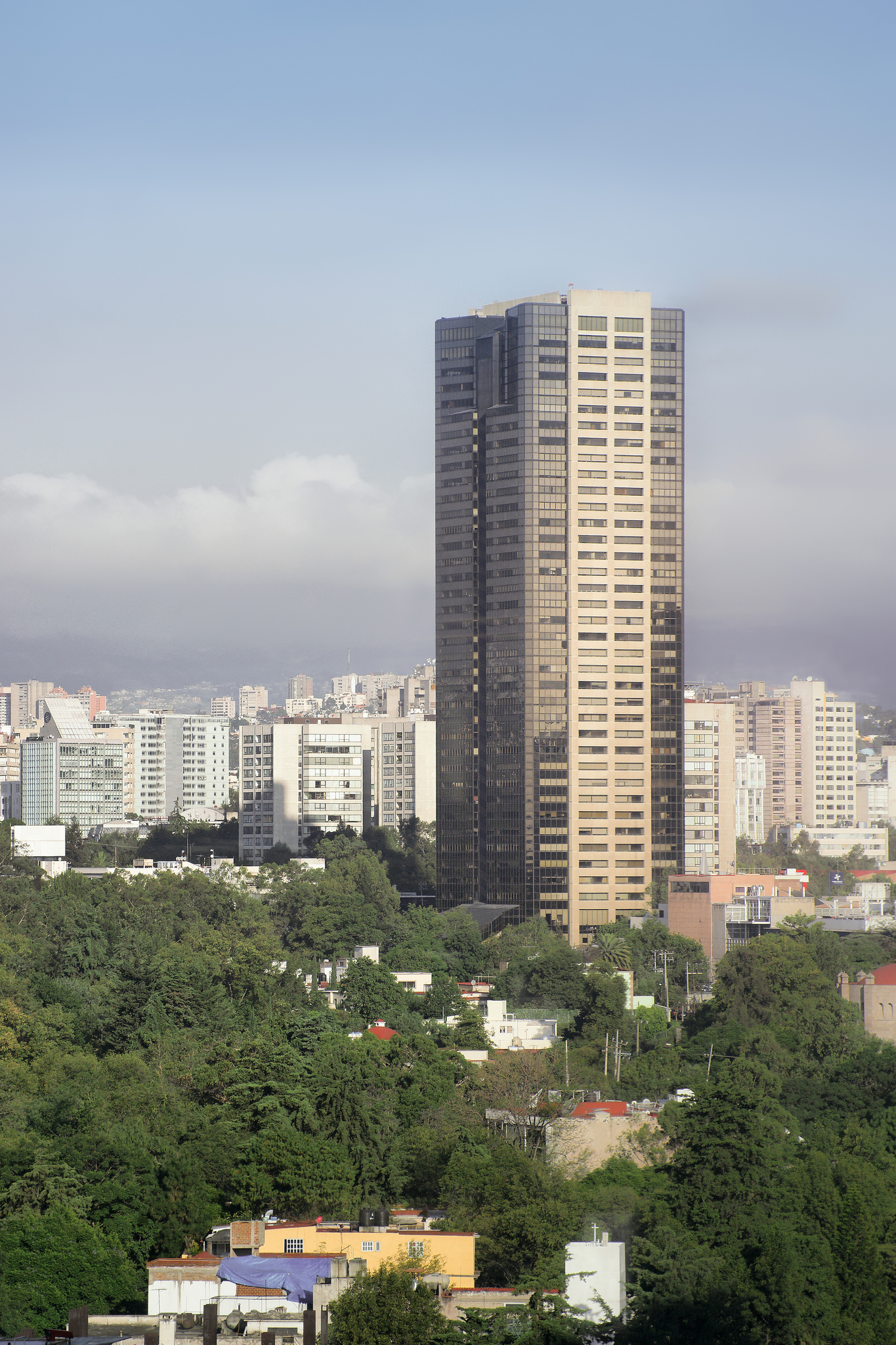 Sesotho: Torre Lomas